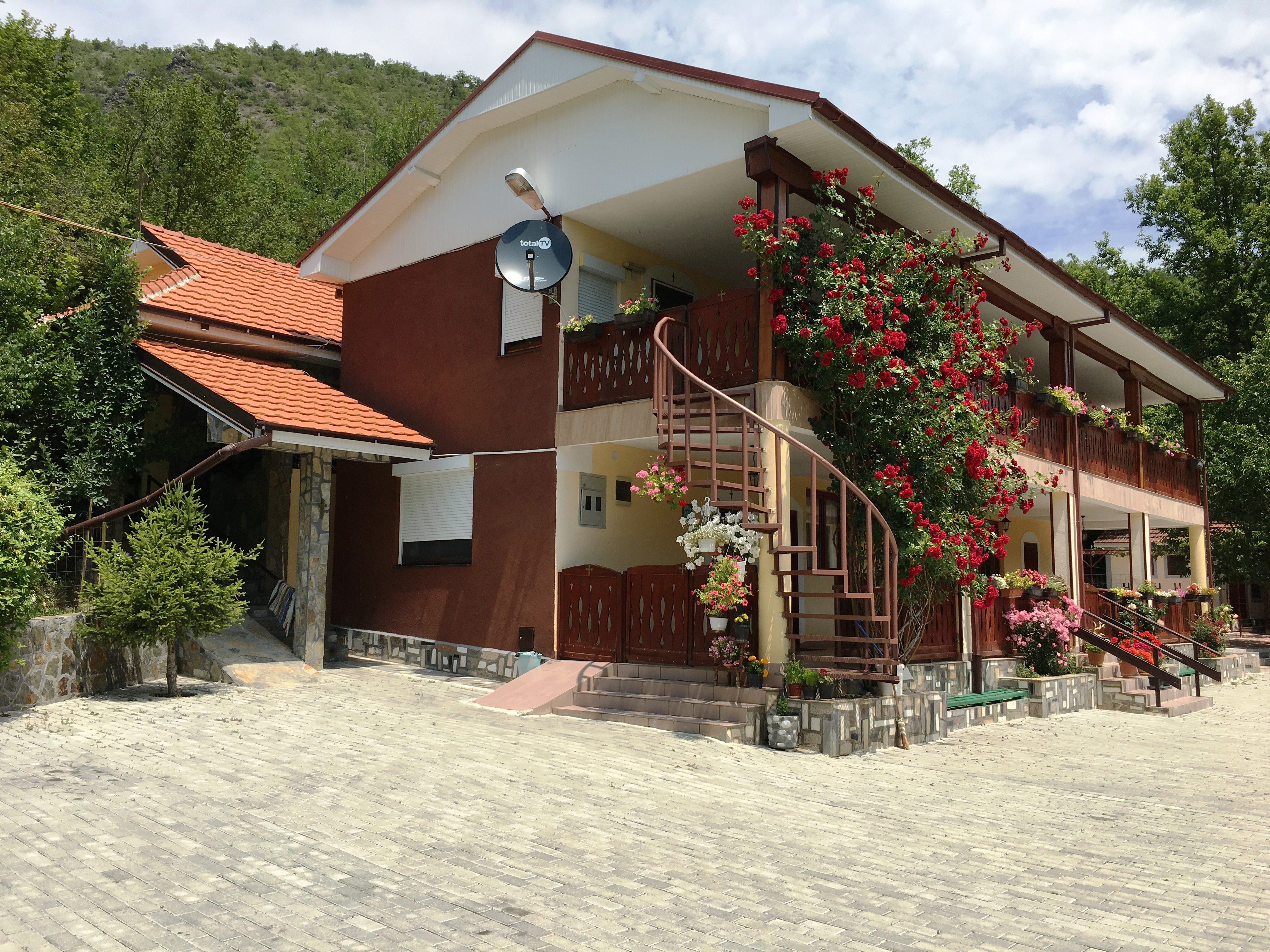 The konak of the Mogilec Monastery